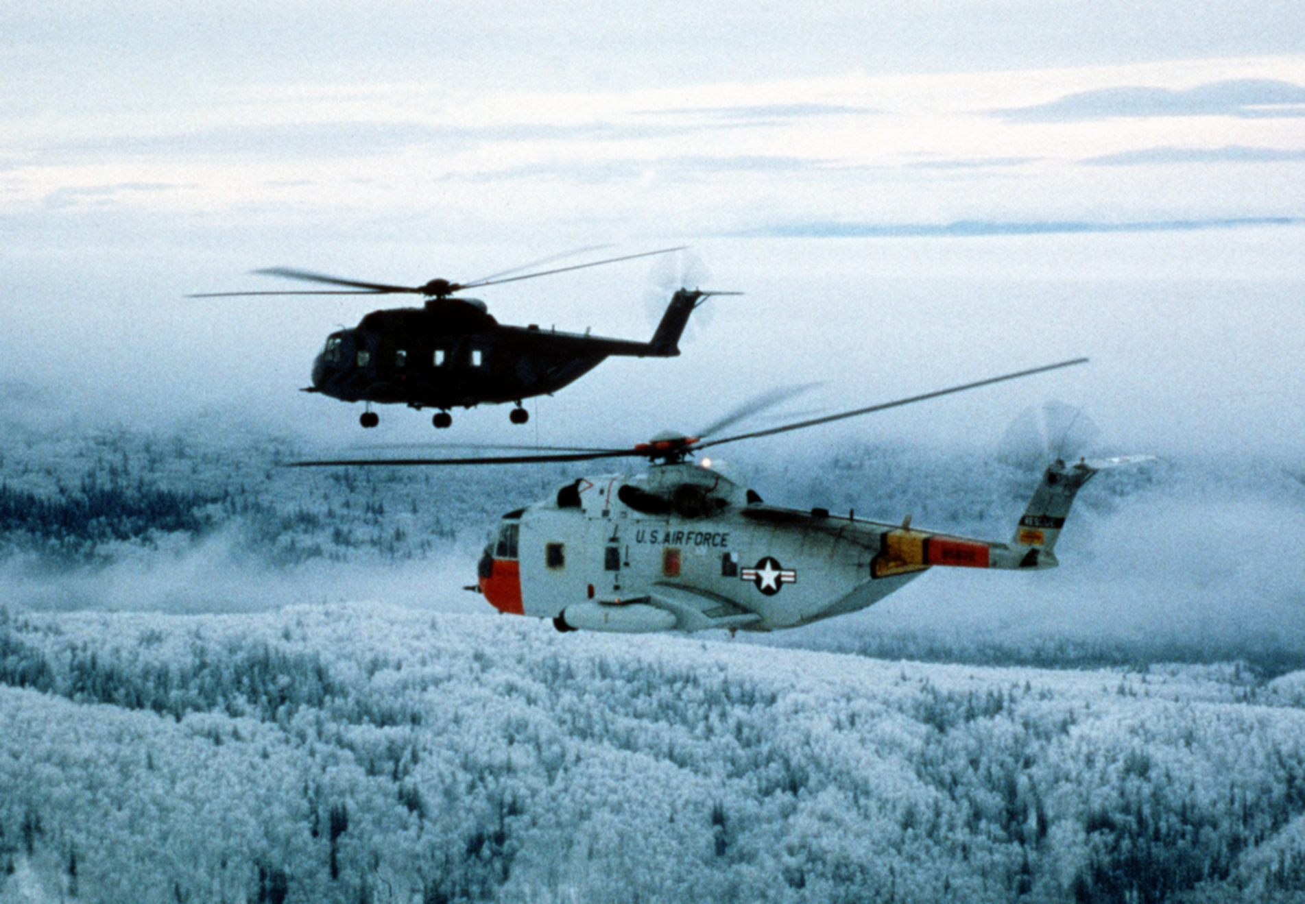 Two U.S. Air Force Sikorsky HH-3E Jolly Green Giant helicopters from the 71st Aerospace Rescue and Recovery Squadron fly a simulated aeromedical evacuation mission over Alaska (USA), during exercise "Brim Frost '87". This was a Joint Force-Alaska exercise that incorporated units of the U.S. Air Force, Army, Navy, Coast Guard, Air National Guard and Air Force Reserve. The Units, commanded by Lt. Gen. David L. Nichols, commander, Alaskan Air Command, dispersed throughout the state to defend key sites against enemy attack.